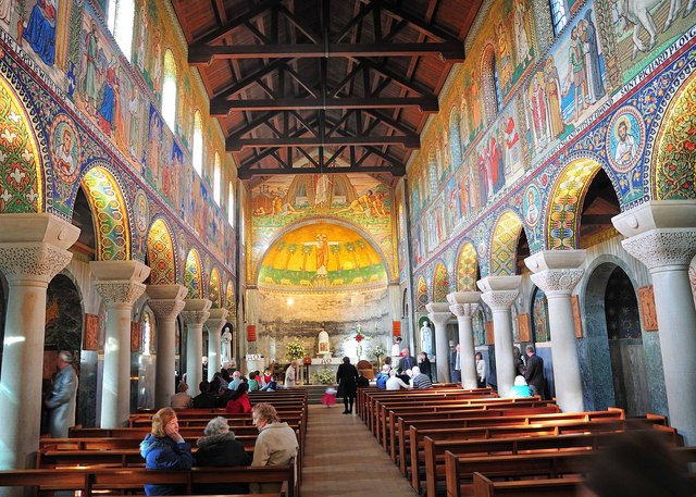 Roman Catholic church of the Sacred Heart and St Catherine of Alexandria, Worcester Road, Droitwich Spa, Worcestershire: inside the nave, looking toward the apsidal chancel